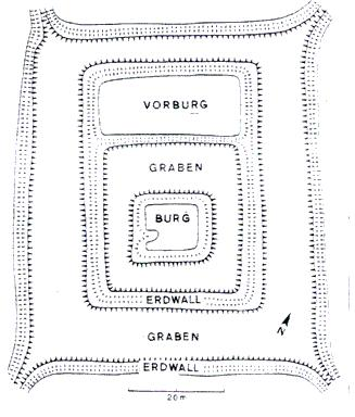 Ground-plan of the motte-and-bailey Laudert.